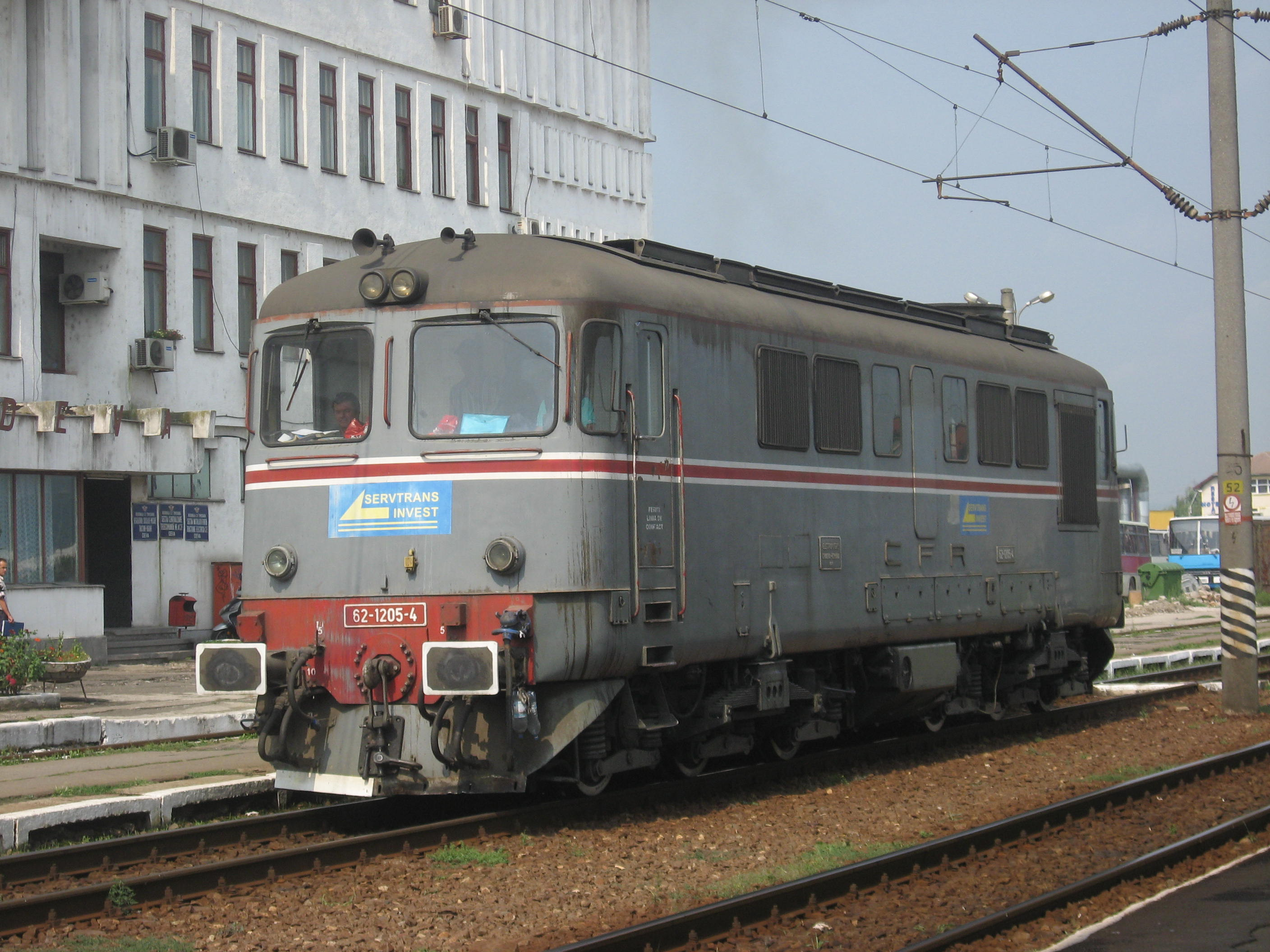 Deva, Hunedoara county, Romania: 62-1205-4 Diesel-electric locomotive type 060-DA1